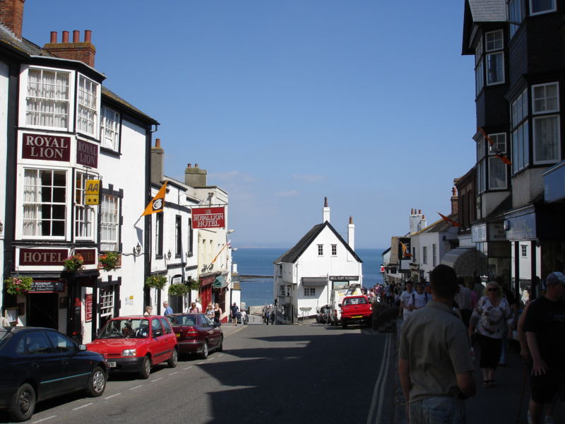 Broad Street, the main road leading down into Lyme Regis, Dorset, UK. To the left is the Royal Lion Hotel; in the middle is the Bell Cliff Restaurant opening onto the Bell Cliff (to the right). Lyme bay and the English Channel can be seen beyond. The scorching summer's day has brought the tourists out in force. Taken June 2006 with digital camera.